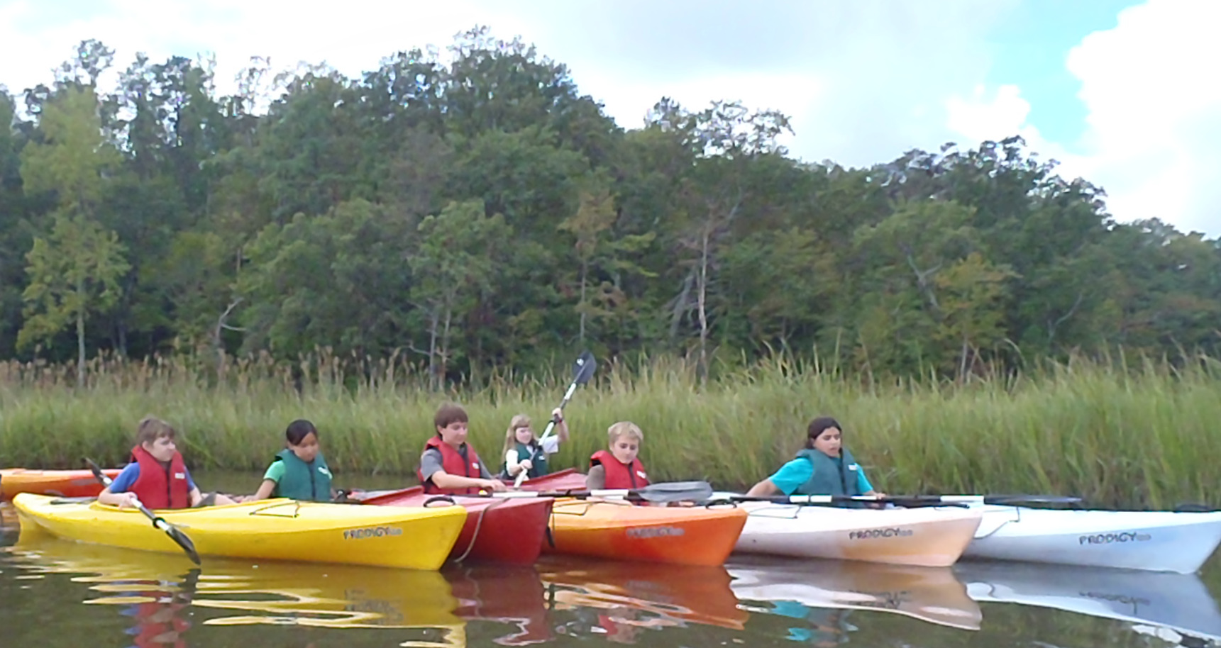 Williamsburg Montessori at York River